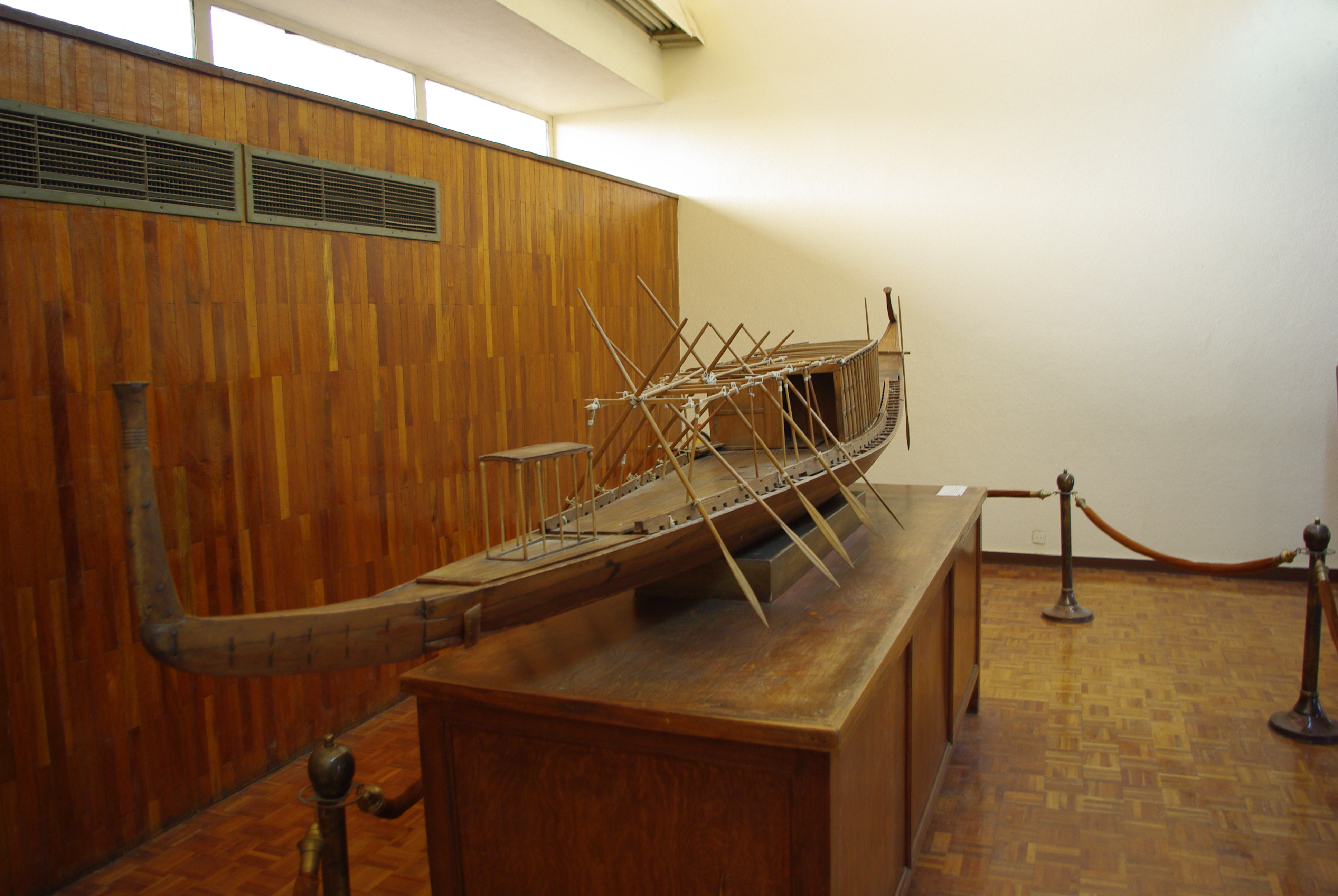 Model of Khufu's solar barque, from the boat museum at the base of the Great Pyramid